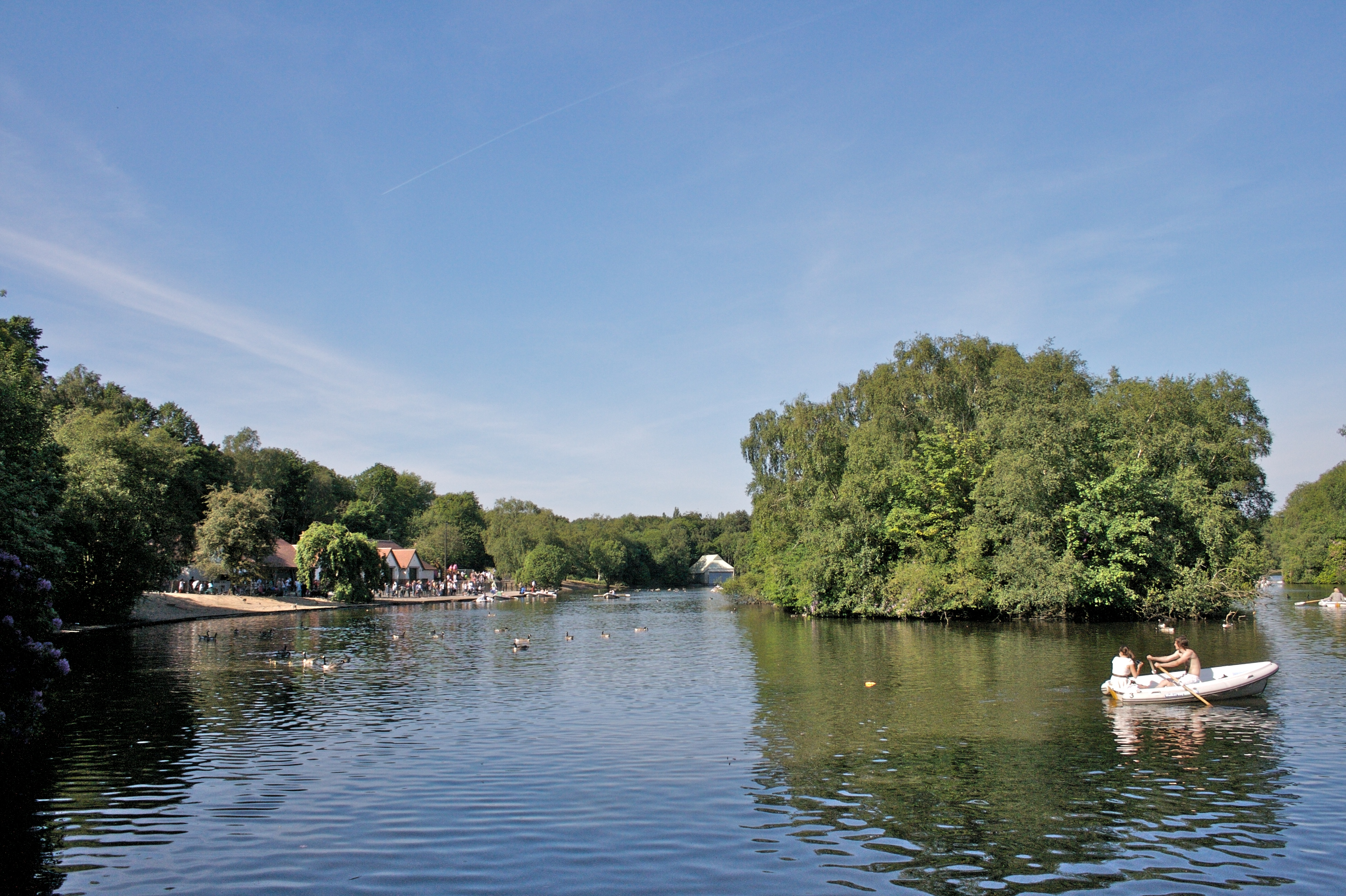 Boating Lake in Heaton Park, Manchester